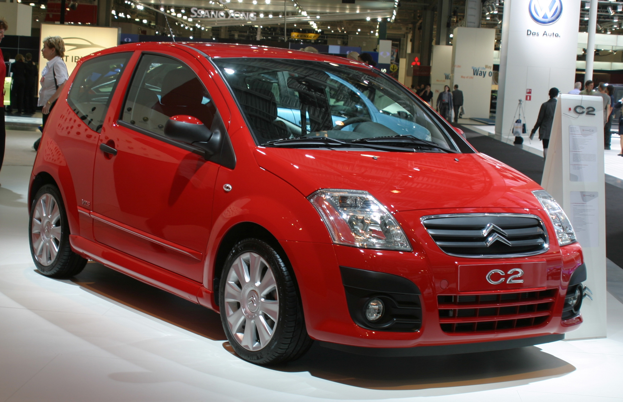 Restyled Citroen C2 on Citroen booth at Moscow internatioanl autoshow, 26 august 2006